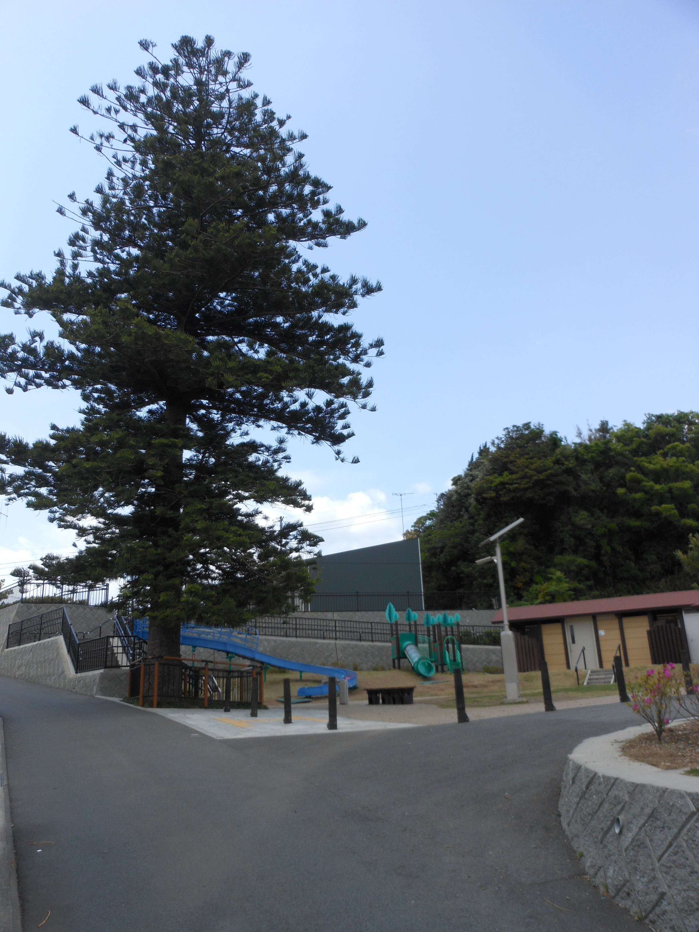 This is the Oriki's Pine Tree Park or Oriki-no-Matsu Park, which is located in Shimacho-Wagu, Shima, Mie, Japan. Oriki was a woman who try hard to help Japanese immigrant in America. This tree is Norfolk Island Pine.